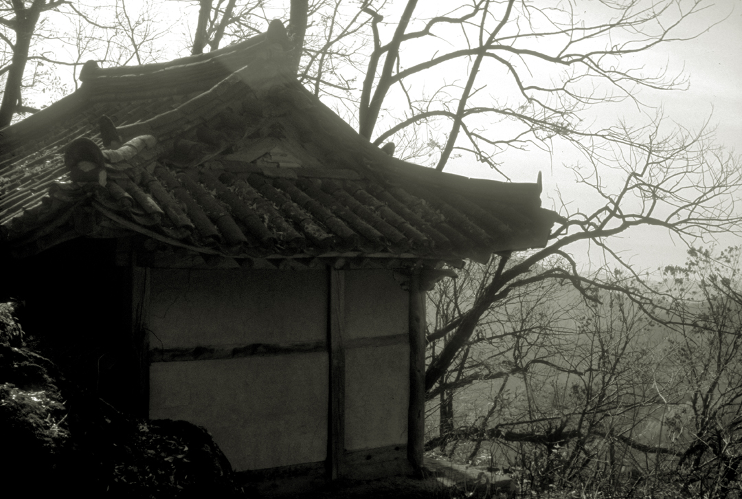 The hermitage building where Seung Sahn first attained enlightenment in 1949 at the end of a 100-day intensive solo retreat, on Won Gak Sahn Mountain, above Magok Sah Temple, South Korea. He spent his last years in Hwa Gye Sah Temple, in the mountains above Seoul, South Korea.